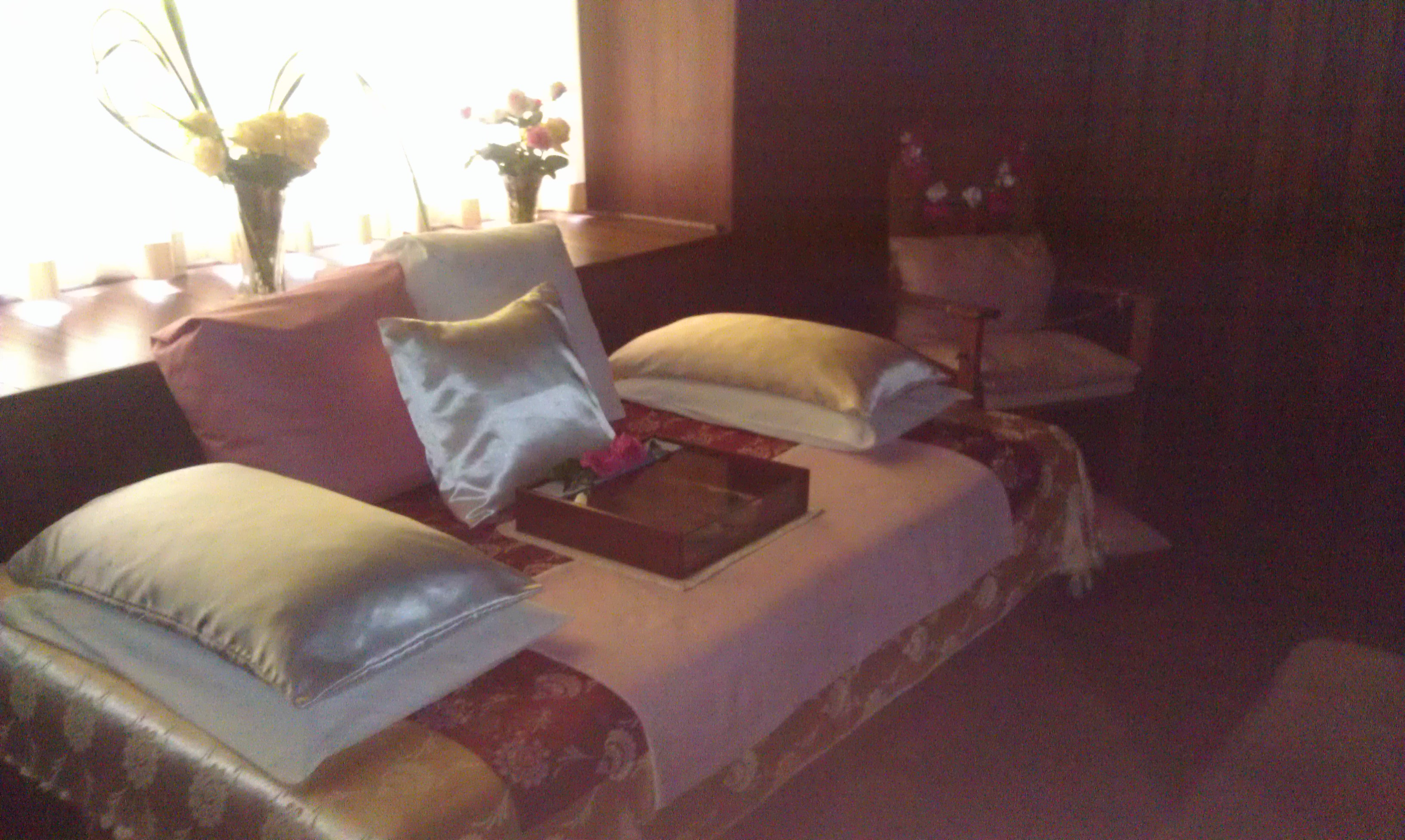 Its on Avatars Abode in Australia. Its inside Baba,s house. It was taken in 2012. it taken on a mobile phone. It shows a bed and a chair Baba slept and sat on